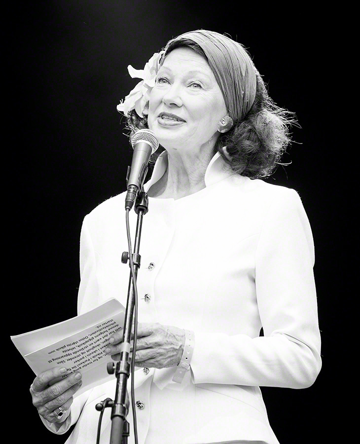 Åse Kleveland at stage with Die with Your Boots On. Piknik i Parken 24. June 2016. Lineup: Malin Pettersen Even Reinsfelt Krogh Humming People Bjørnar Brandseth Marie Tveiten Adam Eaton Filip Roshauw and more..